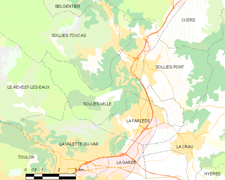 Map of French municipality Solliès-Ville